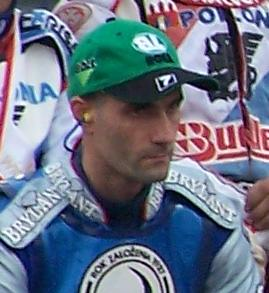 Tomasz Gollob, żużlowiec (polish speedway rider)